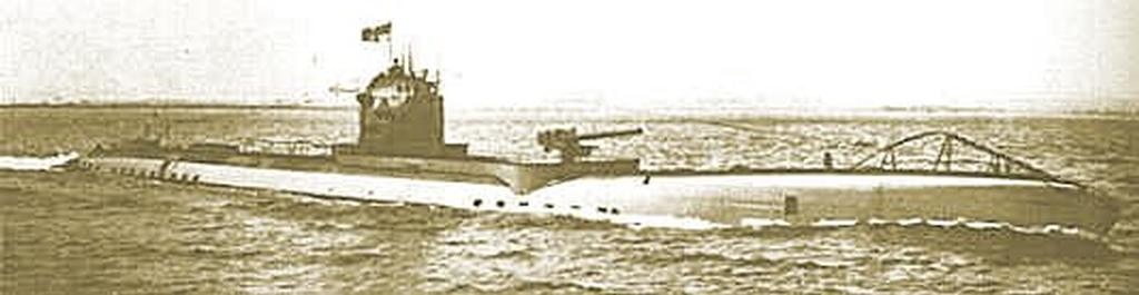 U-135 (Kapitänleutnant Johannes Spieß)